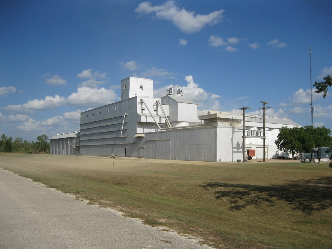 Photo shows rice mill in Altair, Texas from Main Street. US 90 Alternate is on the other side of the building. View is southeast.